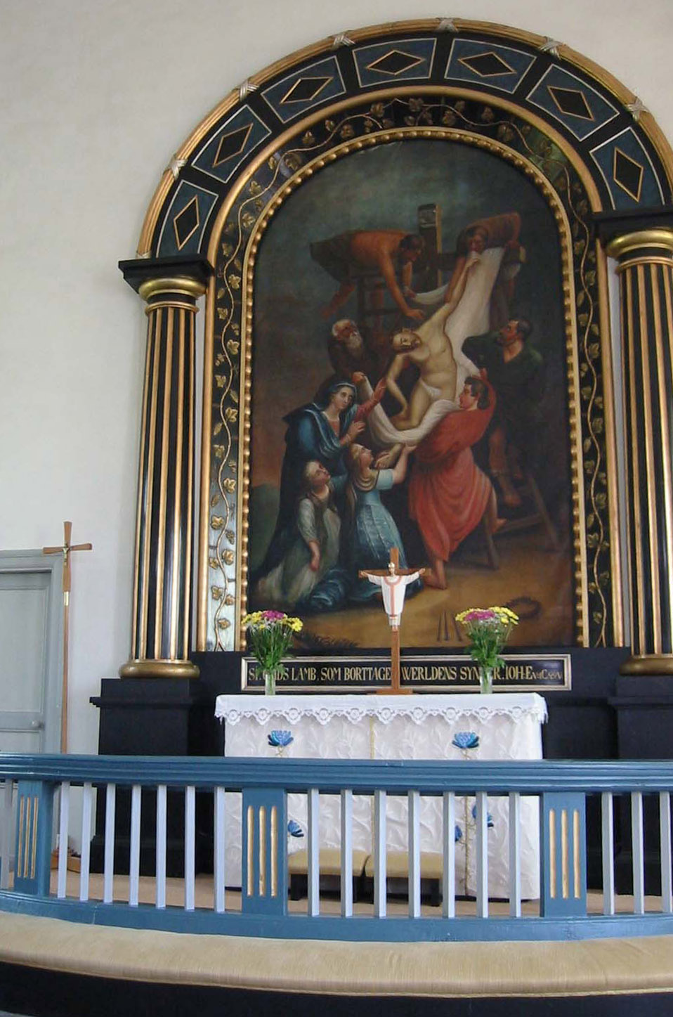 Högsrum kyrka.Altar lineup from 1853 to the board: "Cross Descent" copy for the altarpiece of the Kalmar Cathedral, painted by Sven Gustaf Lindblom.